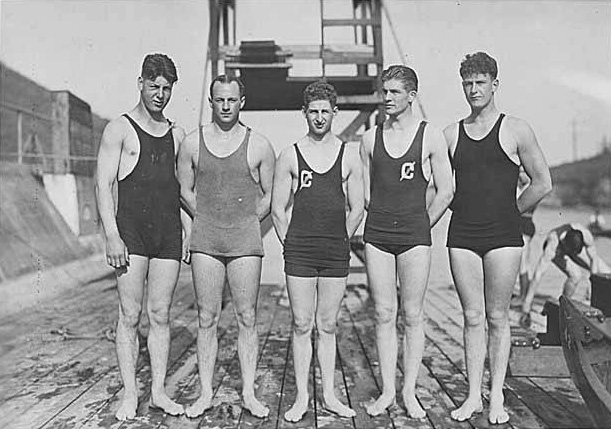 Swim team, University of Washington, 1921 Photographer: Webster & Stevens Subjects (LCSH): Athletes--Washington (State)--Seattle College students--Washington (State)--Seattle University of Washington--Students Portraits, Group--Washington (State)--Seattle University of Washington--Swimming Digital Collection: University of Washington Campus Photographs Item Number: UWC0594 Persistent URL: Visit Special Collections page for information on ordering a copy. University of Washington Libraries. Digital Collections